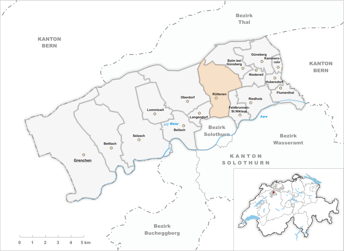 Municipality Rüttenen